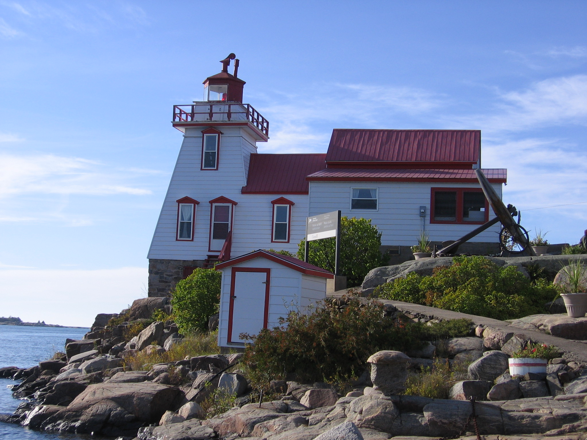 The lighthouse at Pointe Au Baril, Ontario, Canada Picture by Rosemary Tiffin with a Canon PowerShot A510 on October 8th, 2006